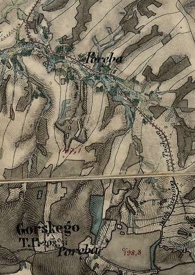 Poreba Radlna about 1860.